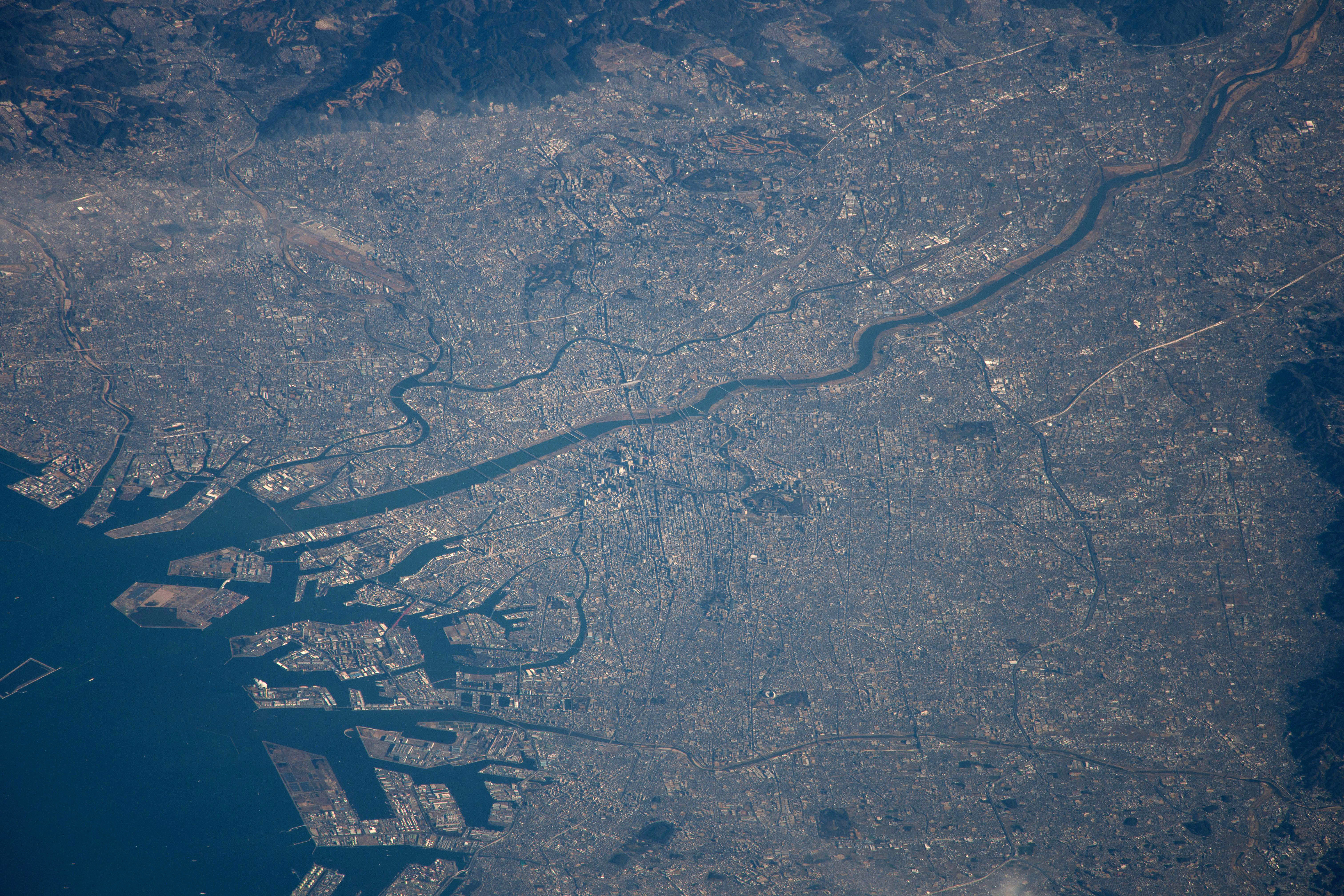 The satellite picture of Osaka City and Yodo River, Osaka prefecture, Japan.